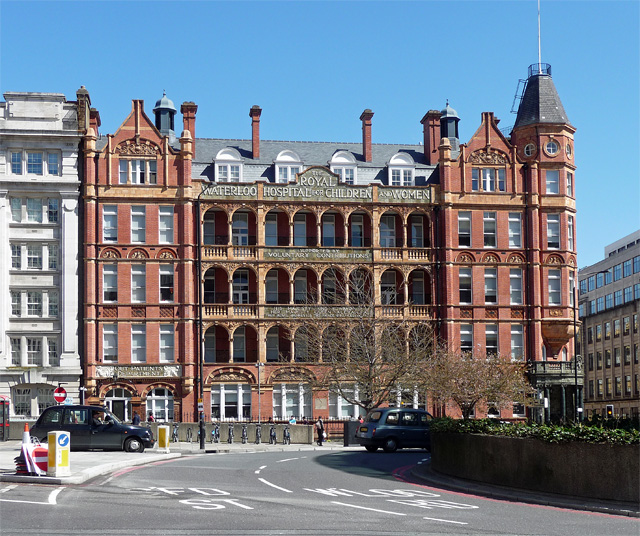 Former Royal Waterloo Hospital, Waterloo Road